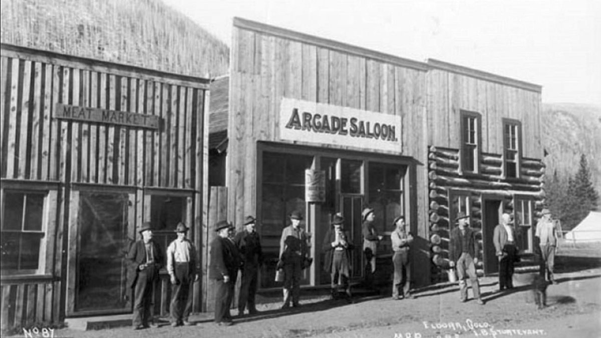 The Arcade Saloon in 1898 Eldora, Colorado. Other information